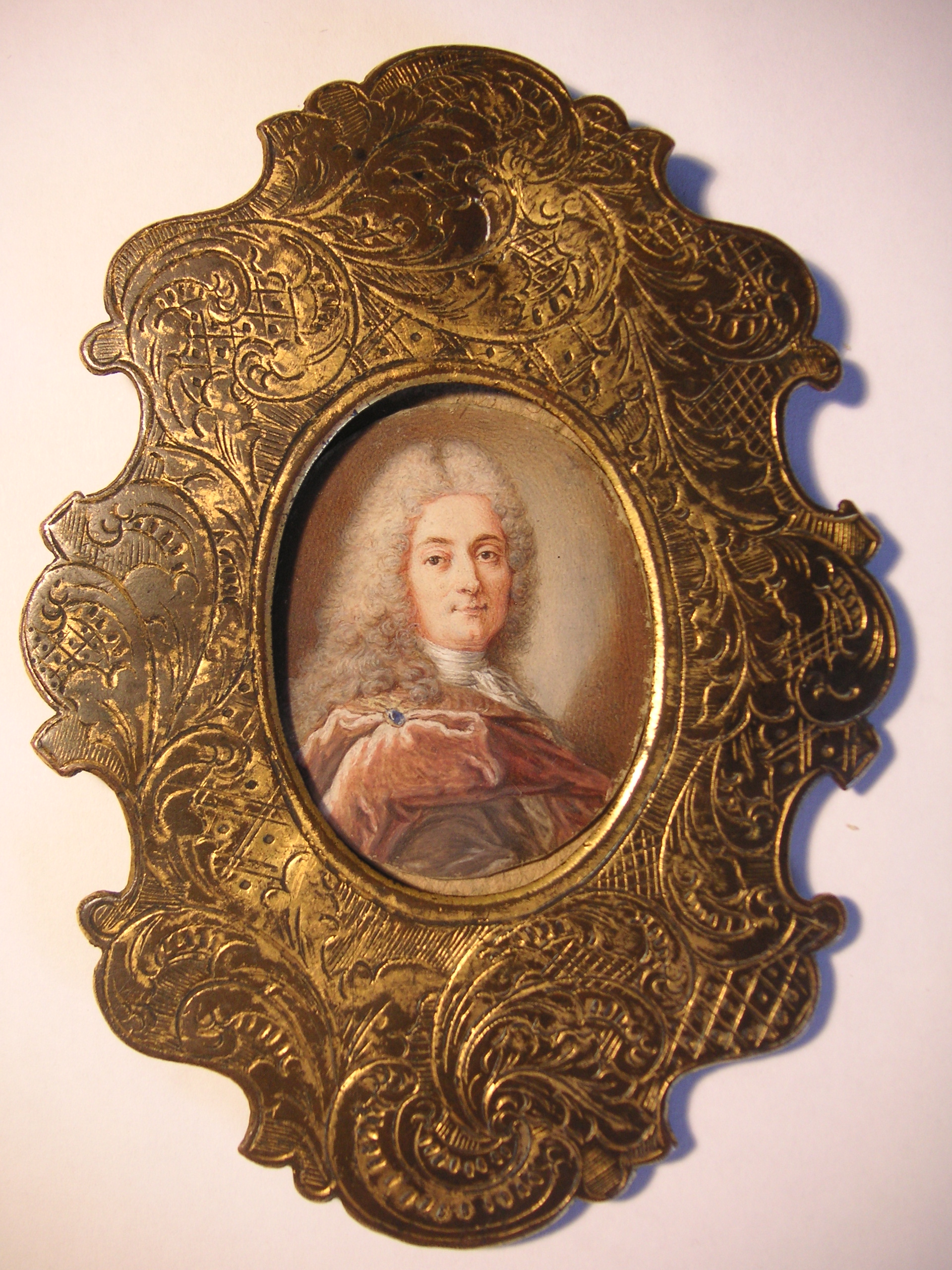 Portrait de John Law (1671-1729), Contrôleur Général des Finances